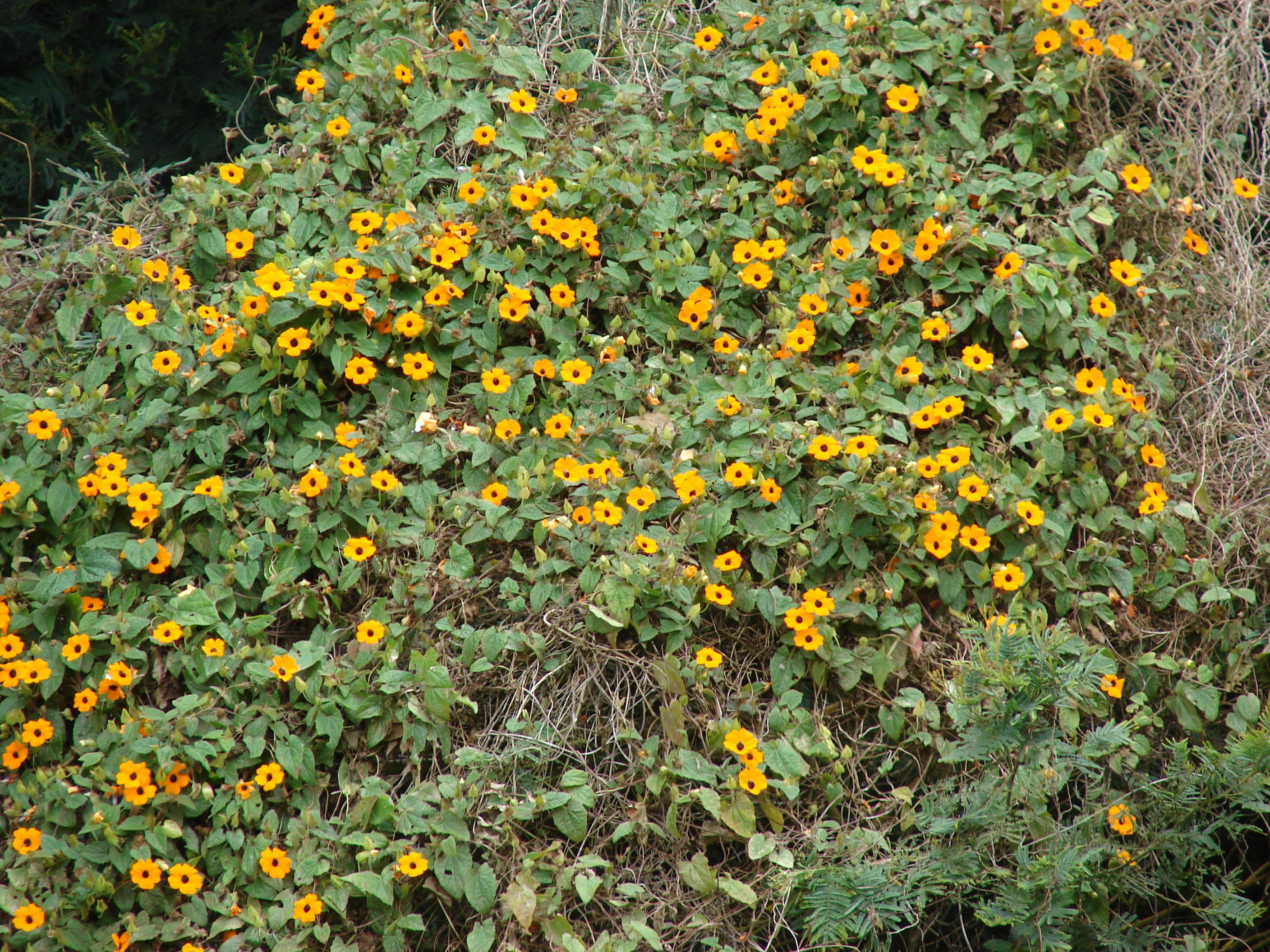 Thunbergia alata (flowers and leaves). Location: Maui, Kula